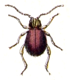 Mezium affine, from Calwer's Käferbuch, Table 28, Picture 23. Taxonomy was updated to 2008, using mostly the sites Fauna Europaea and BioLib. Please contact Sarefo if the determination is wrong!